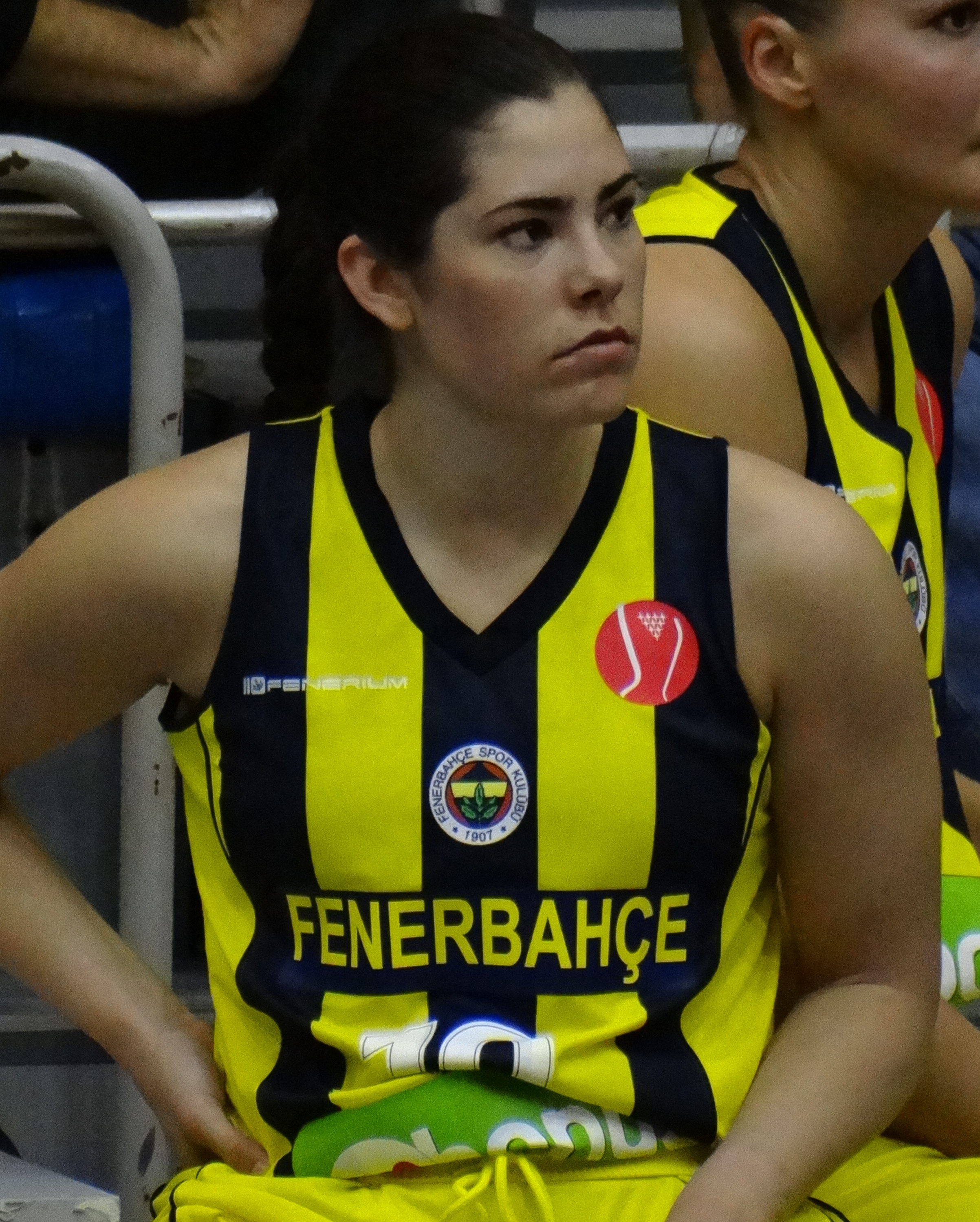 Kelsey Plum Fenerbahçe Women's Basketball vs BC Nadezhda Orenburg EuroLeague Women 20171011 (2)